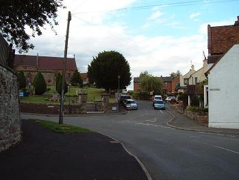 I cls14 took this photo myself of High Street, Cubbington for a school project in April 2002.